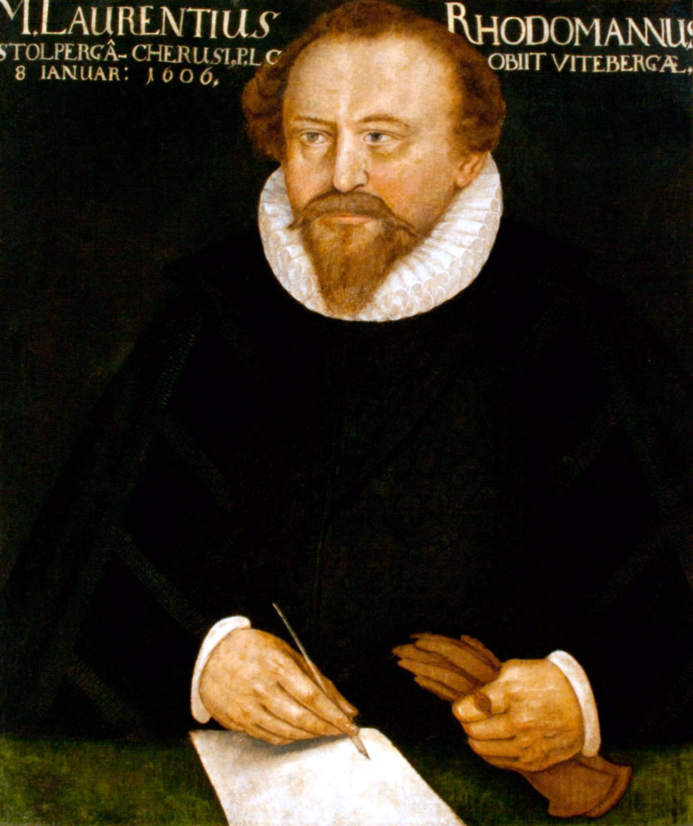 Lorenz Rhodomann (1546-1606) Classical scholars, Protestant theologian an Historian from Germany